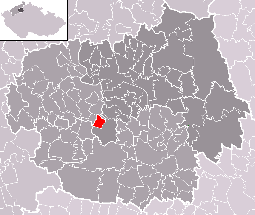 Location of Rochov municipality within Litoměřice District and administrative area of Litoměřice as a Municipality with Extended Competence.